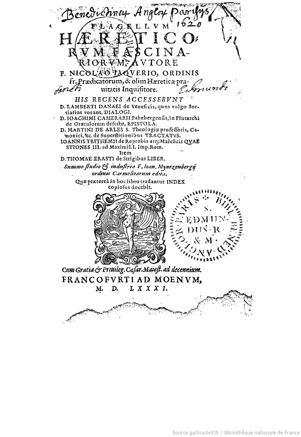 Cover page of Flagellum haereticorum fascinariorum